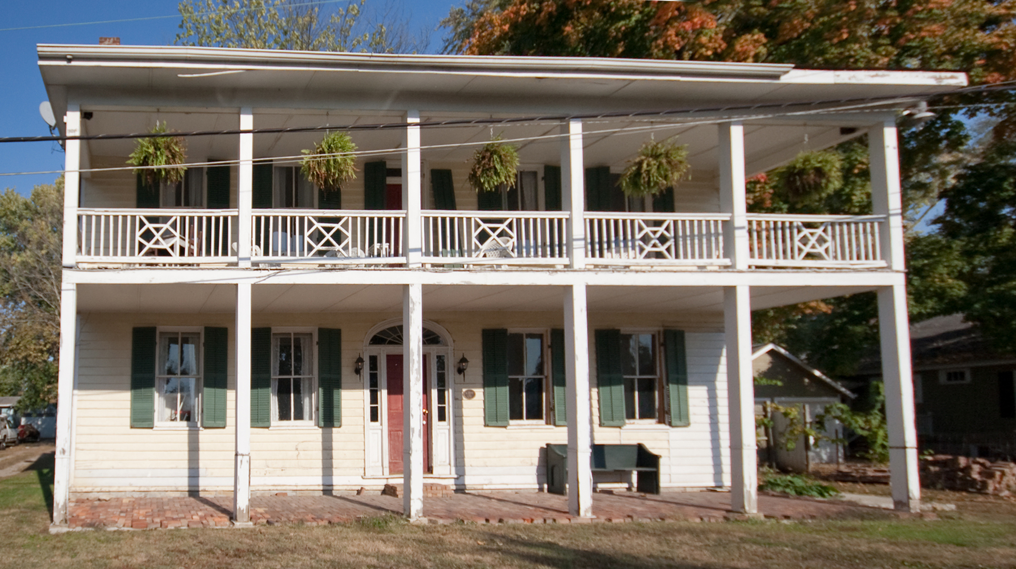 Jonathan Carlton House in Petersburg, Ky Photo by Greg Hume.